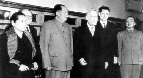 Mao Zedong was visiting Nikolai Bulganin. (from right)Yang Shangkun, Nikolai Fedorenko, Nikolai Bulganin, Mao Zedong, Pavel Yudin(ambassador) and Soong Ching-ling